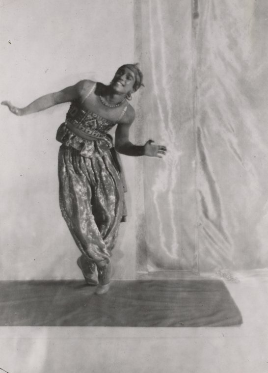 Nijinsky in Schéhérazade